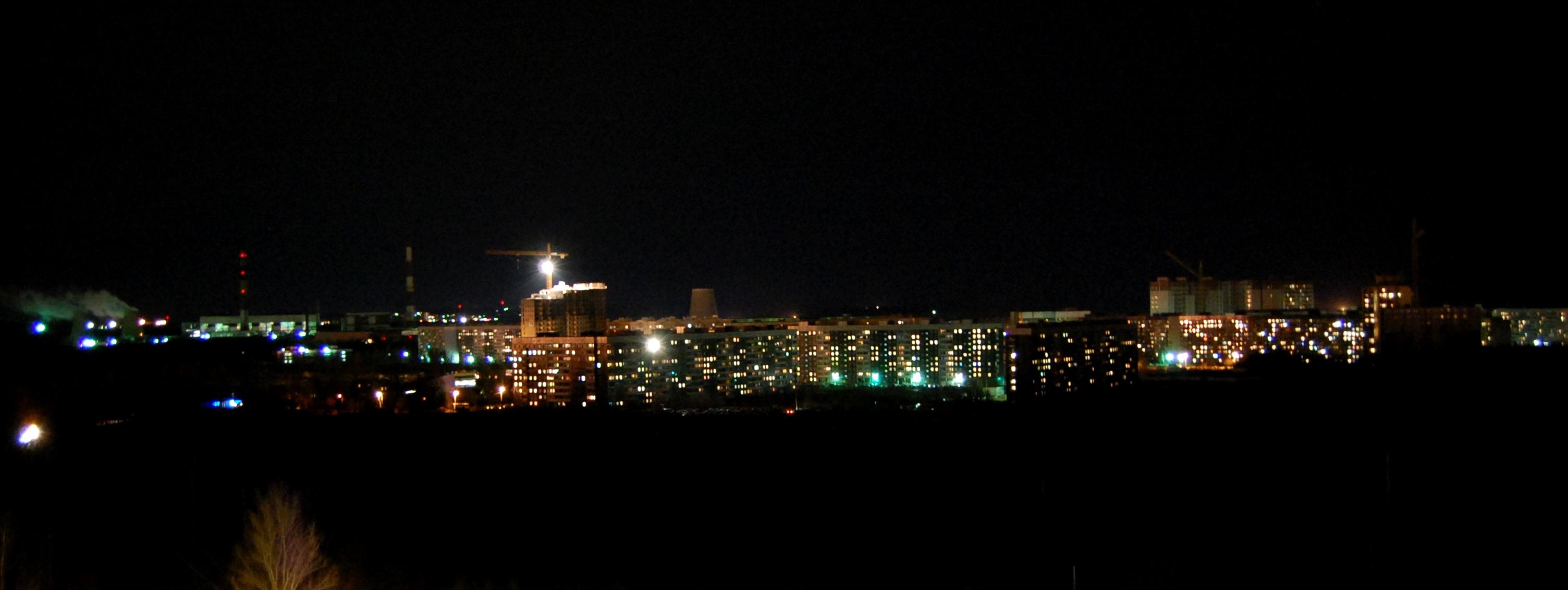 Novoye Devyatkino (Leningrad Region, Russia) at Night.